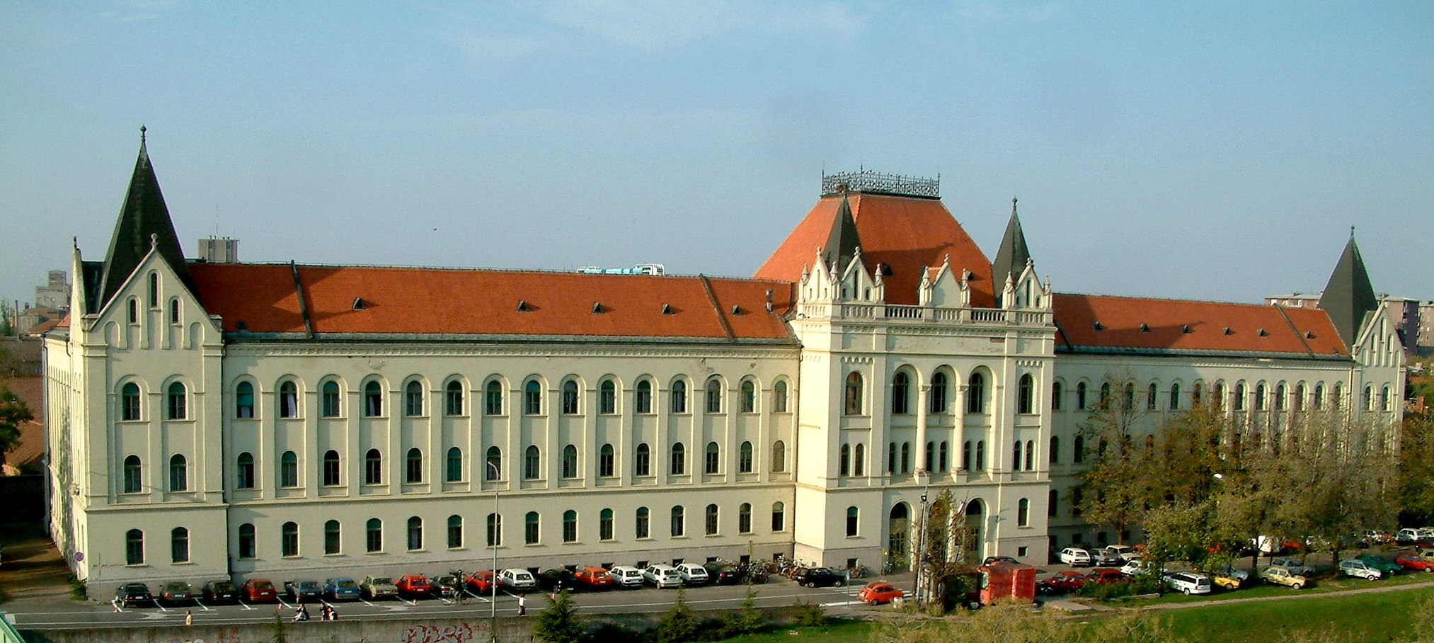 Courthouse building in Zrenjanin